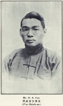 Pan Xie'an (1893-?)